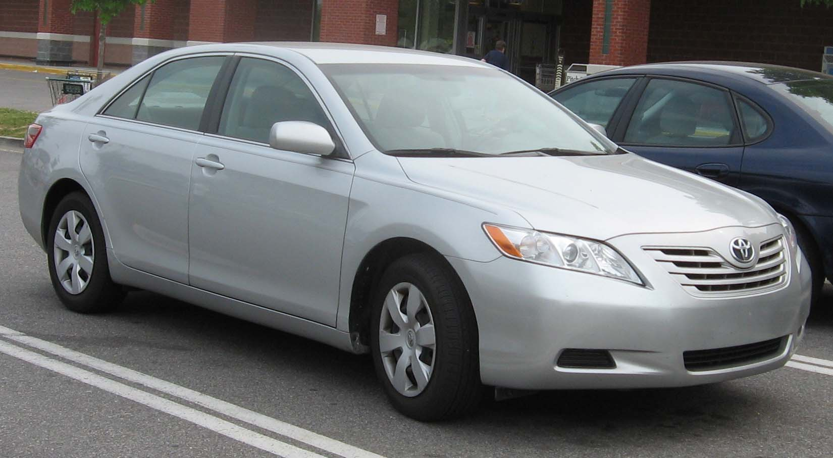 2007 Toyota Camry photographed in USA.